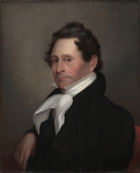 Senator Thomas Hart Benton by Matthew Harris Jouett (circa 1820)